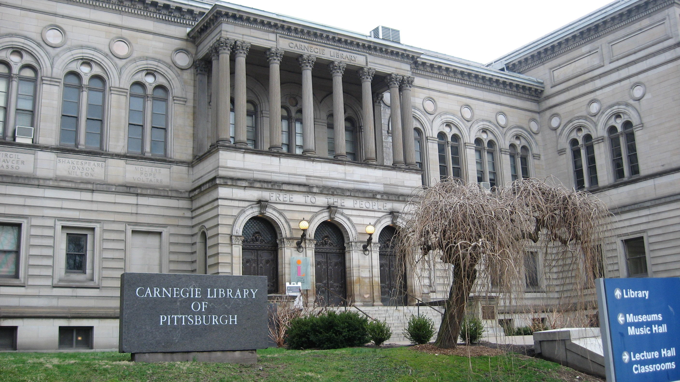 Front entrance of the Carnegie Library of Pittsburgh40°26′33.7″N 79°57′2.8″W / 40.442694°N 79.950778°W